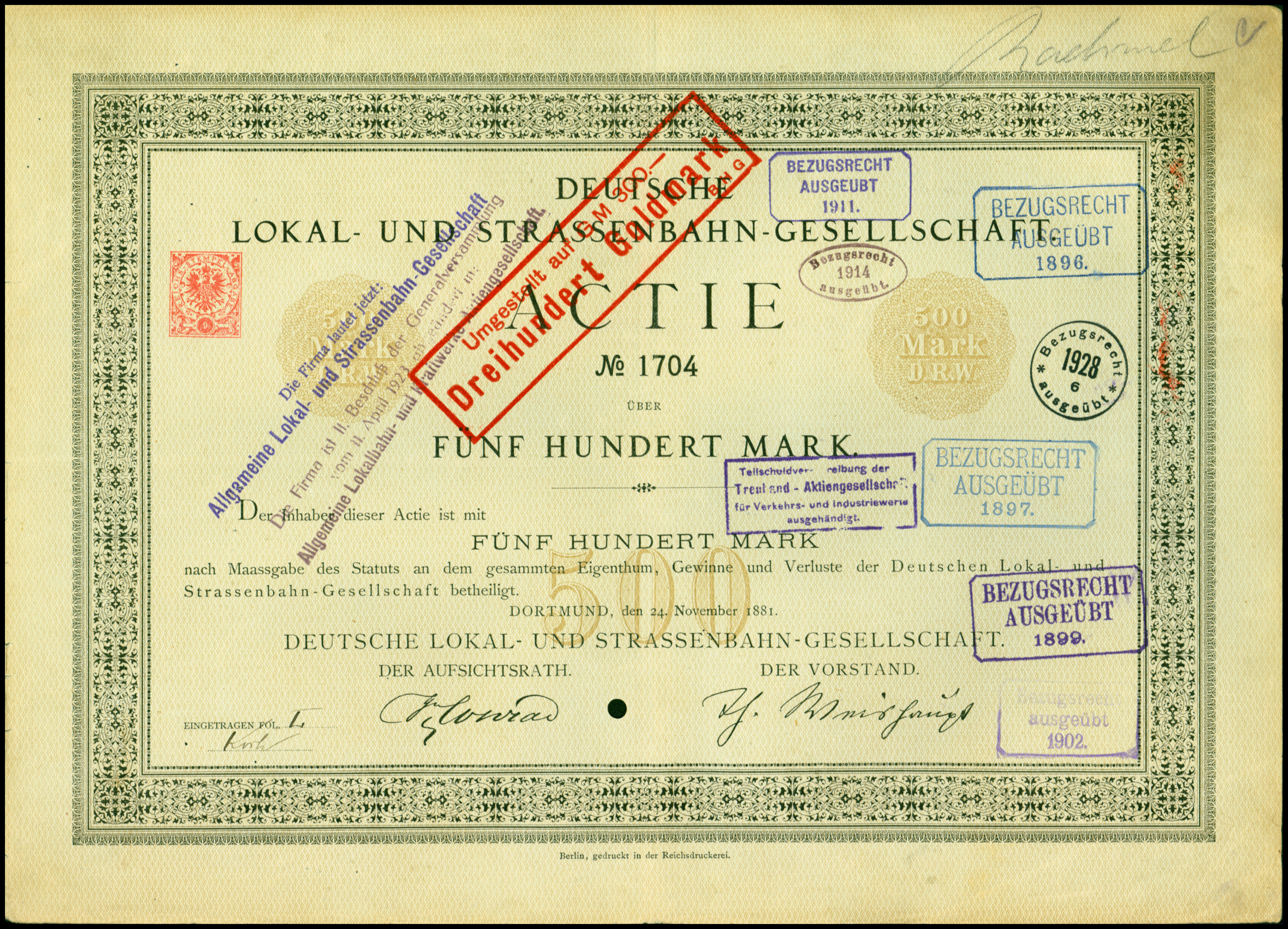 Share of the Deutsche Lokal- und Strassenbahn-Gesellschaft, issued 24. November 1881